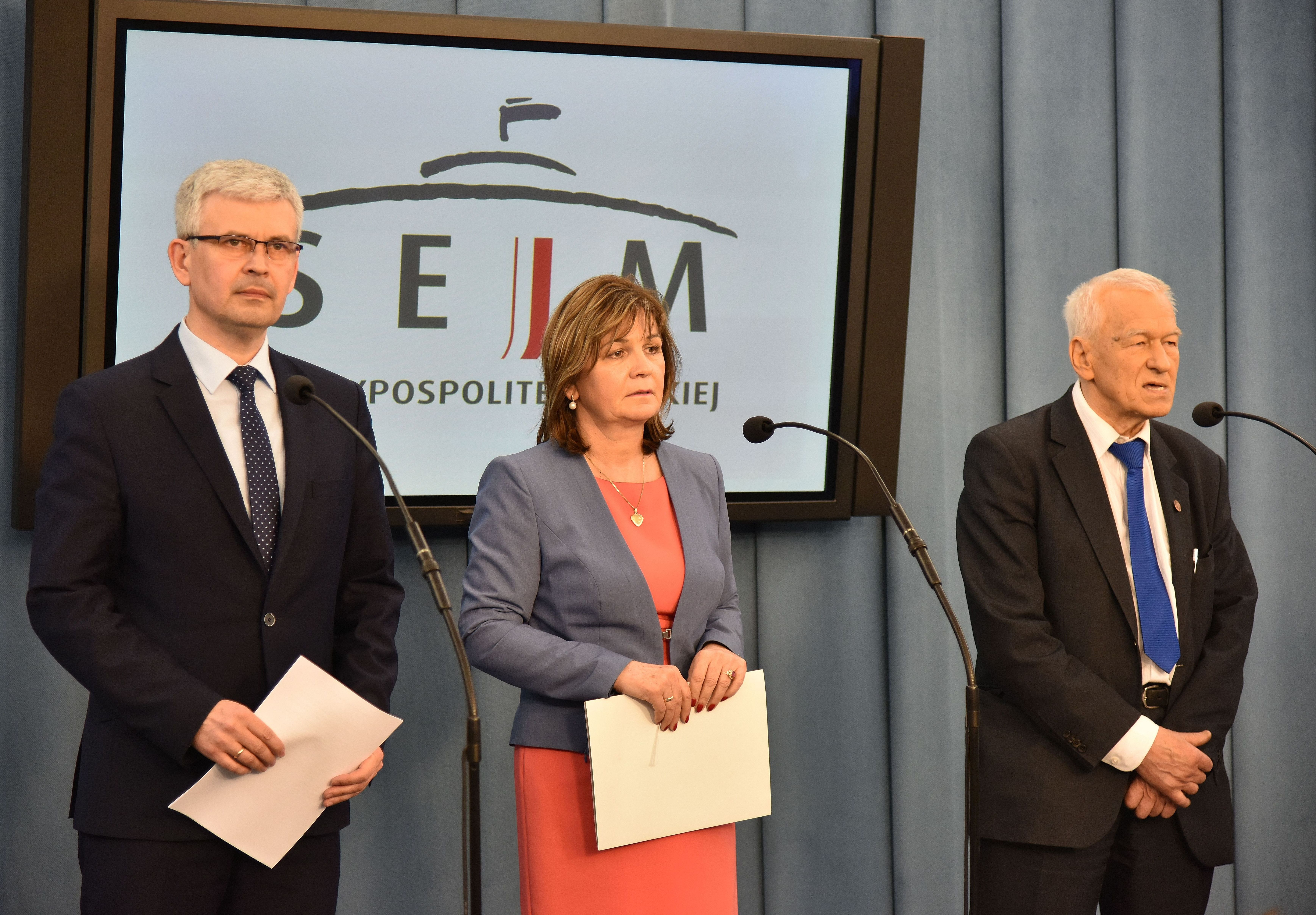 Ireneusz Zyska, Małgorzata Zwiercan and Kornel Morawiecki in the Sejm